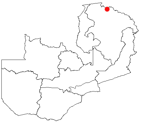 Mpulungu, Zambia Location Map; created with the GIMP. Made by User:Acntx.